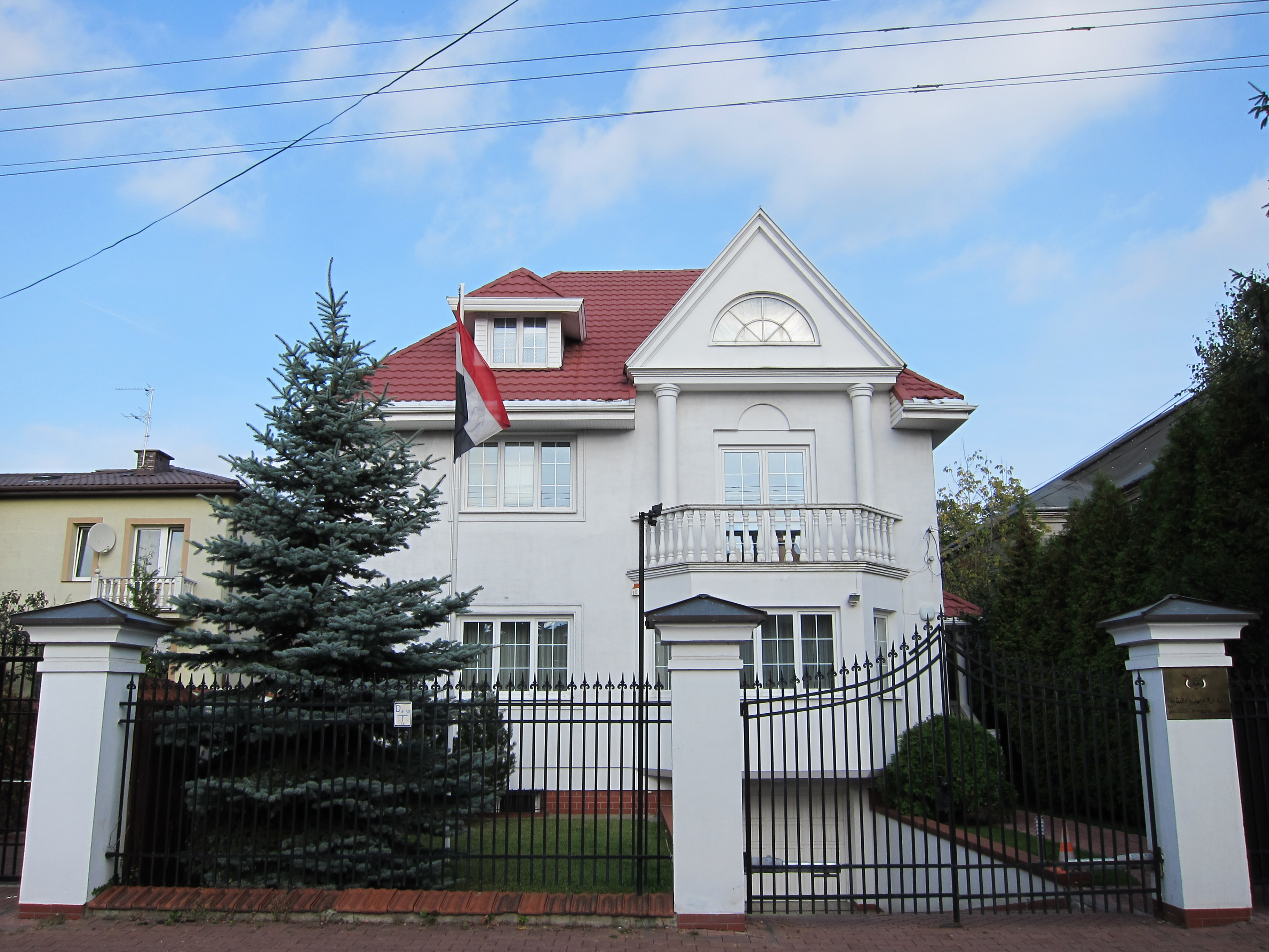 Exterior of the Yemeni Embassy in Warsaw, Poland, which has since moved from its original location